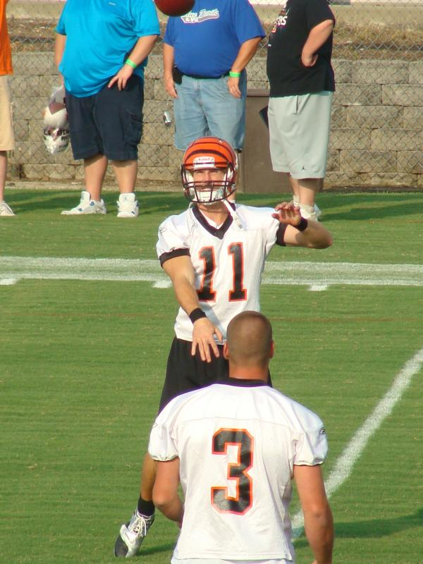 Jordan Shipley tossing the ball to Mike Nugent during training camp